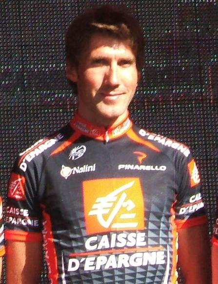 Named cyclist at the en:2009 Tour Down Under team presentation